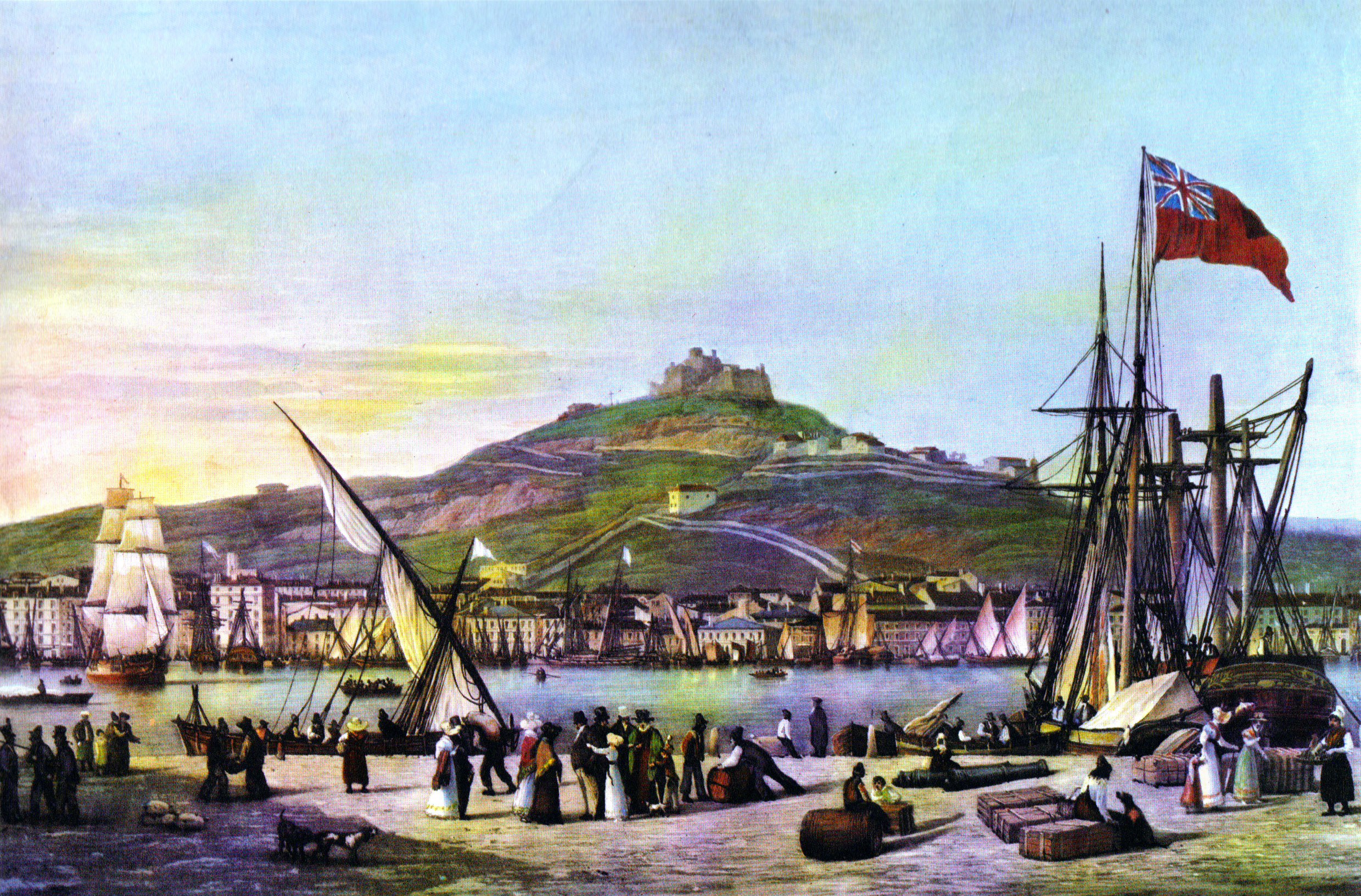 Marseille seaport, around 1825. Artist: Garneray.